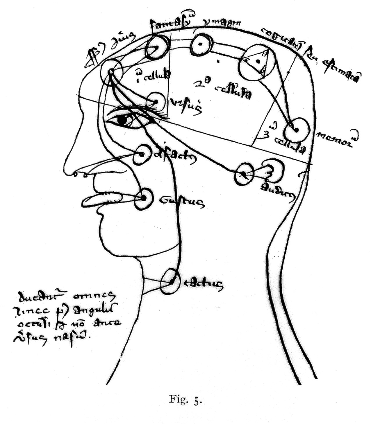 Drawing: head, showing cells of brain ventricles, General Collections Keywords: Neurology; Biology